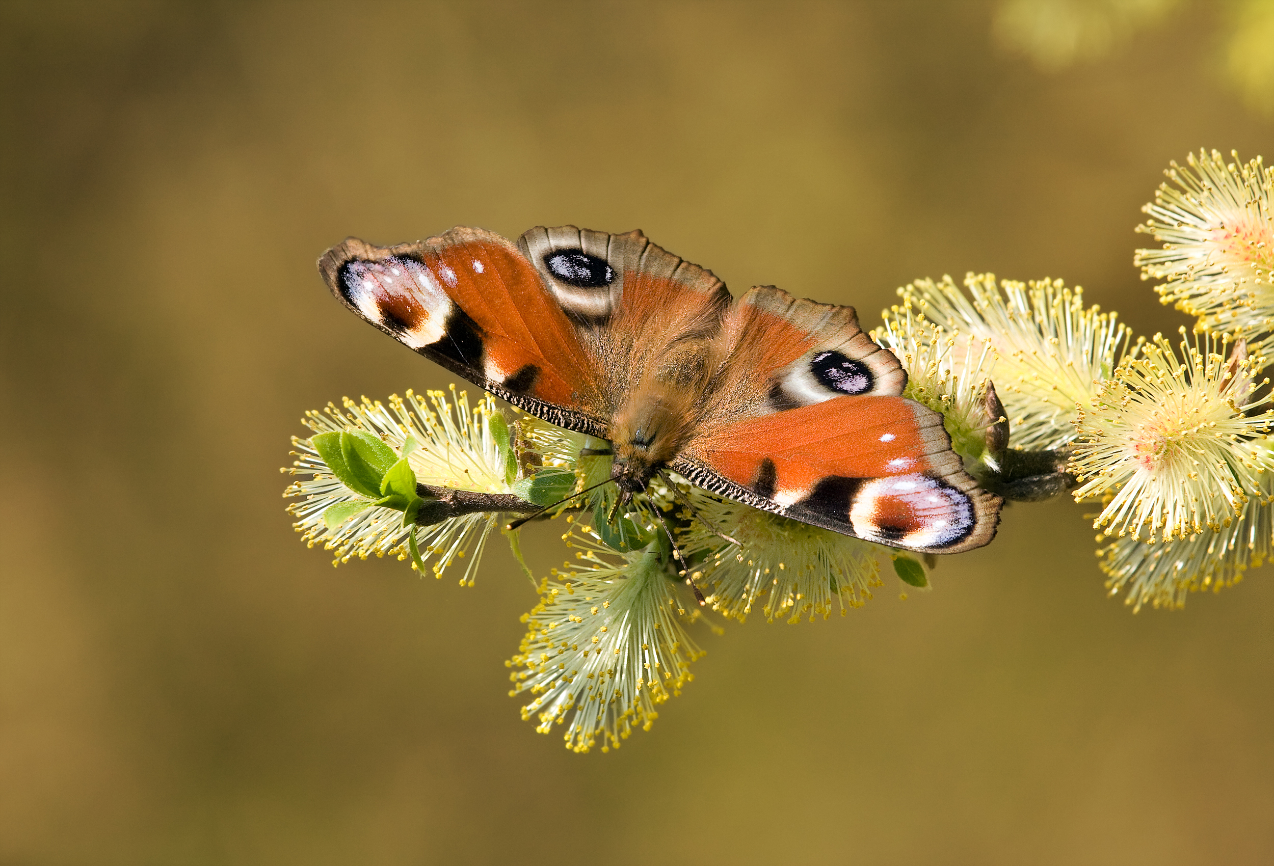 European Peacock butterfly (Inachis_io) on Pussy Willow (Salix_caprea) Taken at Speichersee, Aschheim, Germany